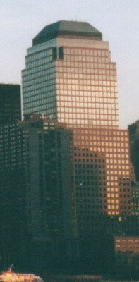 Cropped from File:NYC-WorldFinancialCenter.jpg Taken by User:Legalizeit in December 2005. Creative Commons licence.